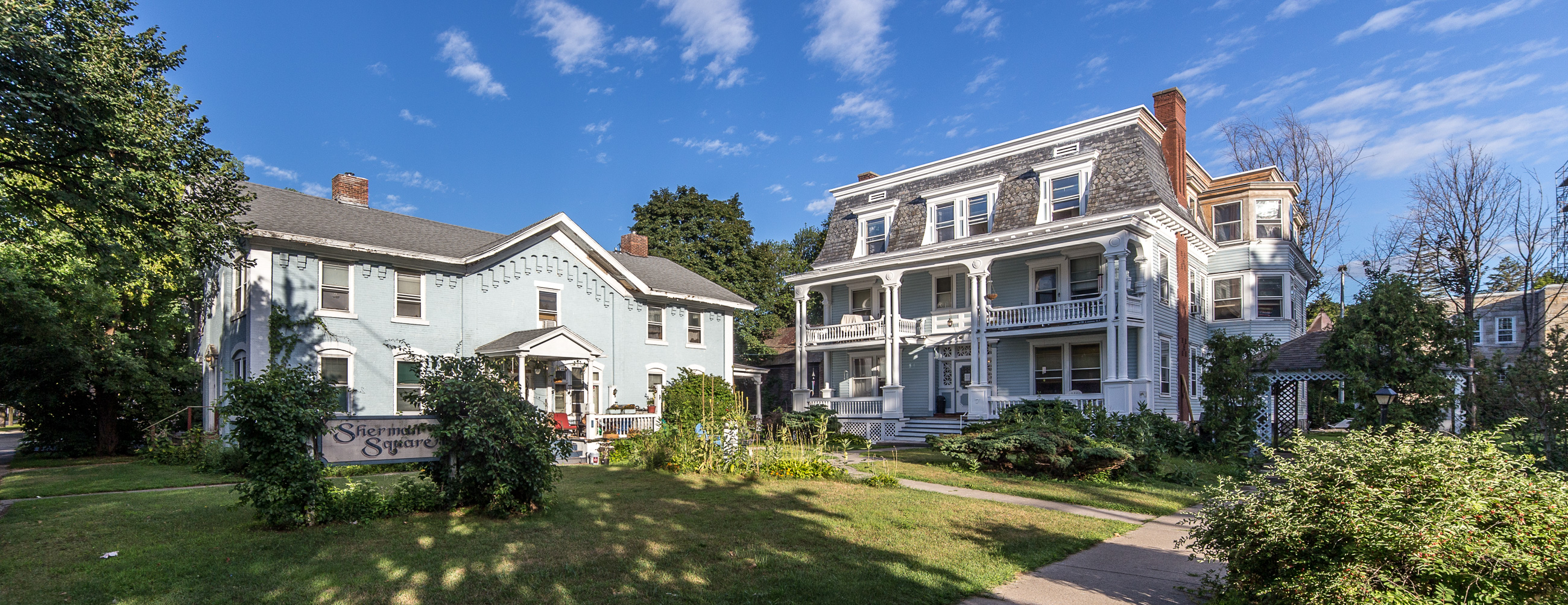 Sherman Square Apartments, formerly site of the Bemis Eye Sanitarium Complex. Glens Falls, Warren County, NY. The building on the left is 9 Sherman Avenue.